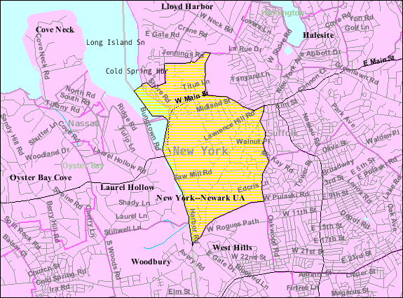 U.S. Census 2000 reference map for Cold Spring Harbor